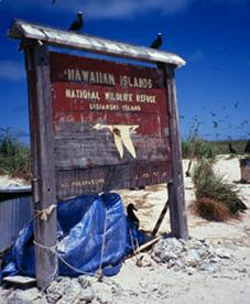 USFWS Reserve sign on Lisianski Island, Northwestern Hawaiian Islands